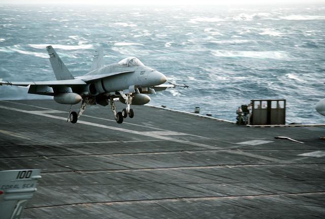 A U.S. Navy McDonnell Douglas F/A-18A-15-MC Hornet (BuNo 162422) from Strike Fighter Squadron 132 (VFA-132) "Privateers" landing in rough seas on the aircraft carrier USS Coral Sea (CV-43). VFA-132 was assigned to Carrier Air Wing 13 (CVW-13) aboard the Coral Sea for a deployment to the Mediterranean Sea from 1 October 1985 to 19 May 1986.